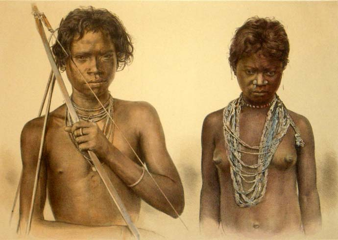 From Dalton's "Descriptive Ethnology of Bengal," 1872; engravings with modern hand coloring: "Bendkar: Male and Female"* "Bhotia: Man and Woman"* "Bhuiya: Male and Female"* "Fakial and Miri"* "Garos"* "Ho: Girl and Woman"* "Juang"* "Kachari"* "Kuki"* "Lepcha: Man and Woman"* (shown above) "Limbo"* "Miri: Man and Woman"* "Mug and Ho"* "Mundas"* "Munipuri: Married Woman and Young Girl"* "Namsang Naga Muttuck"* "Oraons"*